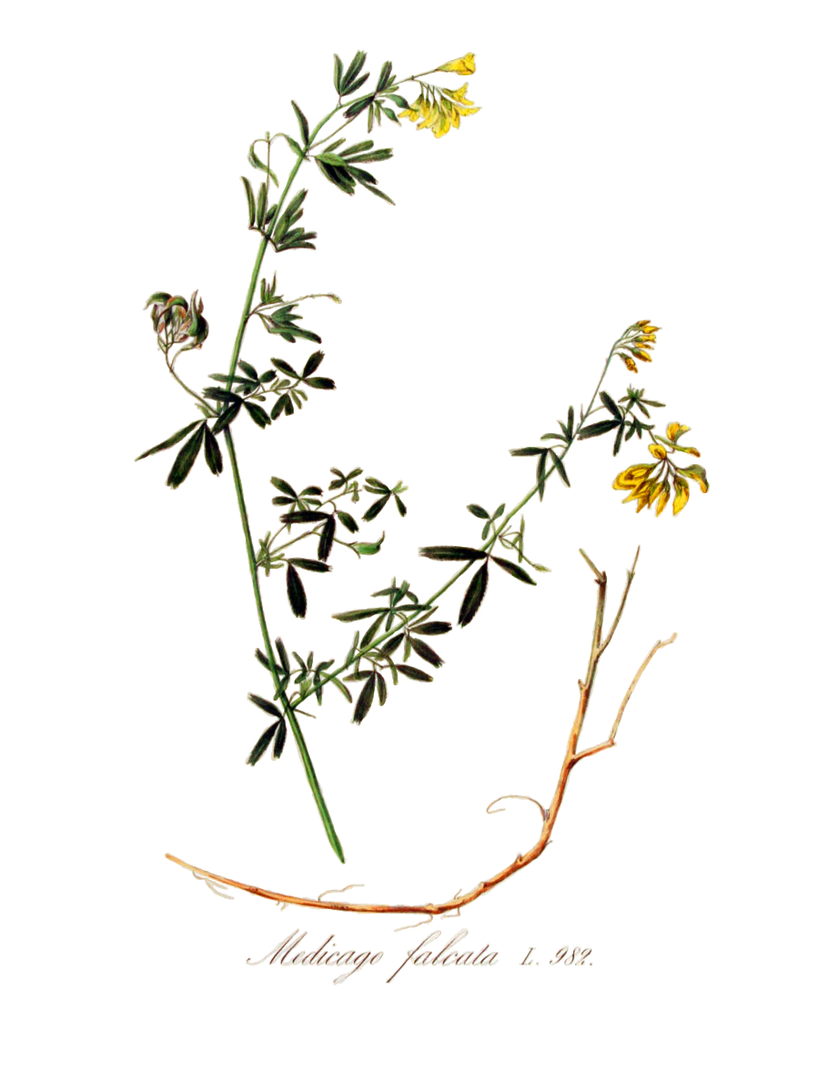 Illustration of Medicago sativa L. subsp. falcata (L.) Arcang..